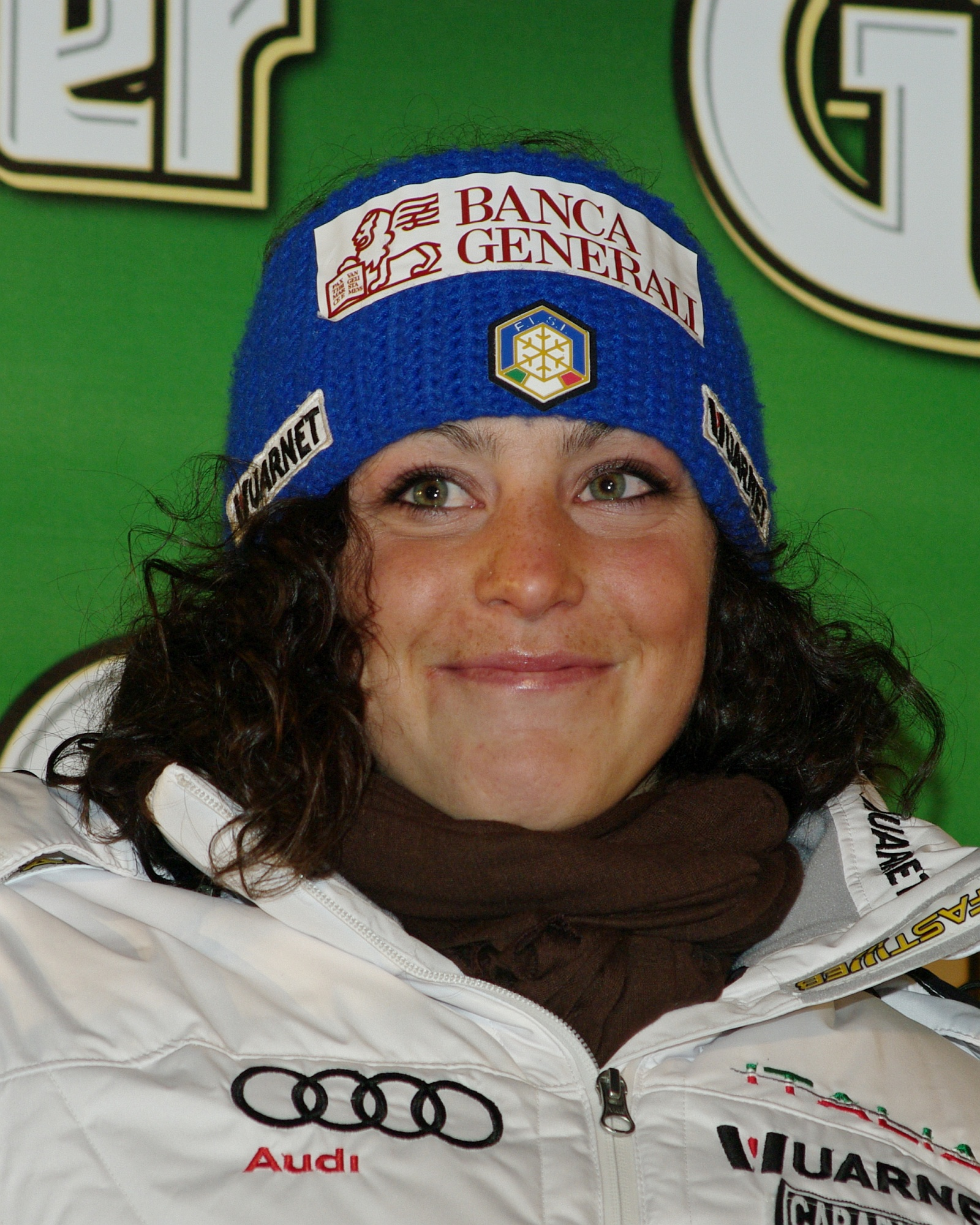 Italien alpine skier Federica Brignone at the bib draw for the Giant Slalom in Semmering (Austria) on 28 December 2010.